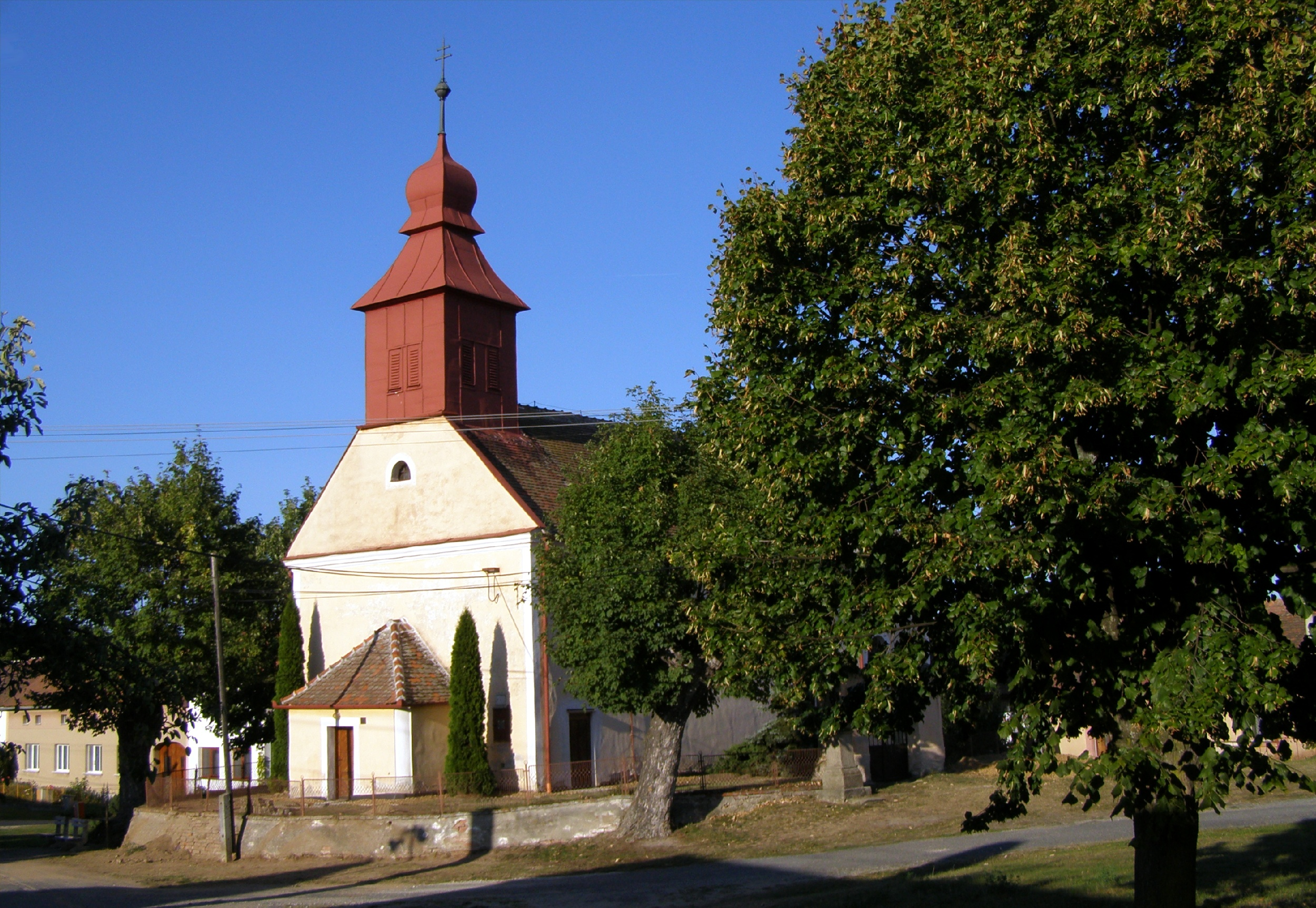 Račice. St. Wenceslas church